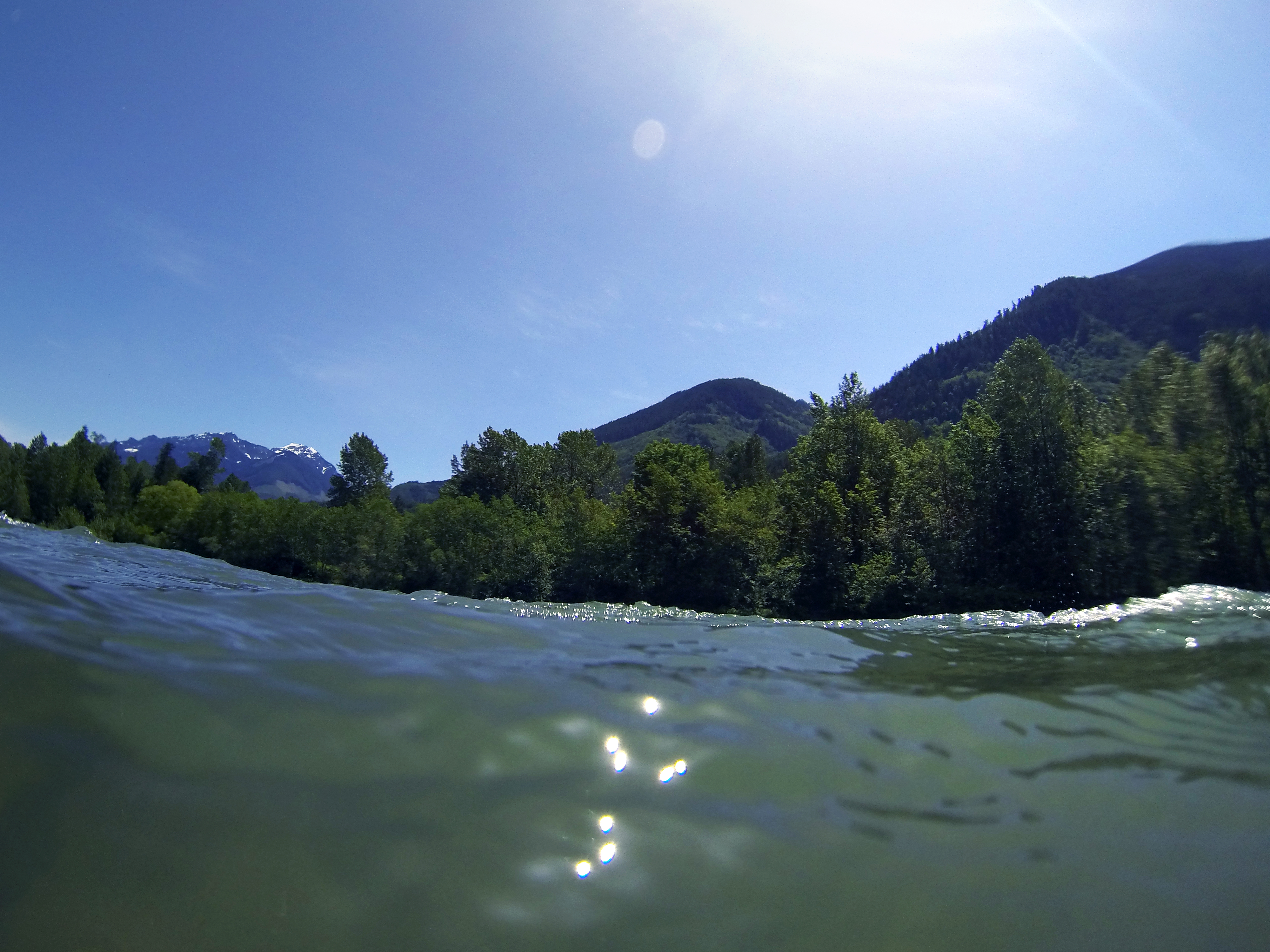 Chilliwack River Provincial Park. British Columbia, Canada. Latitude: 49.078273, Longitude: -121.877804 Altitude: 85m This photo was taken in a protected area in Canada, Wikidata item Chilliwack River Provincial Park (Q5099102)